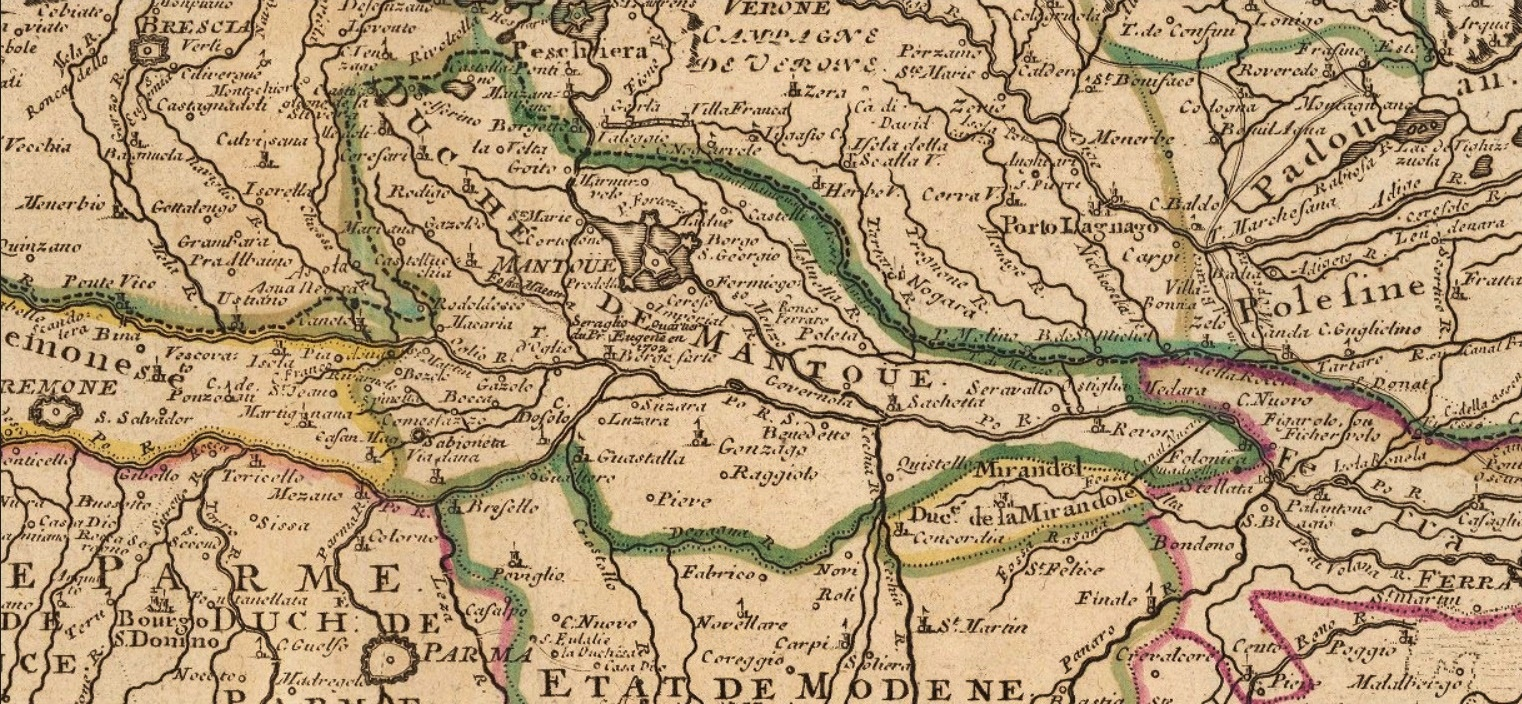 The duchies of Mantua and Mirandola, cropped from a map by French cartographer Nicolas de Fer titled L'Évêché de Trente, published in 1720.